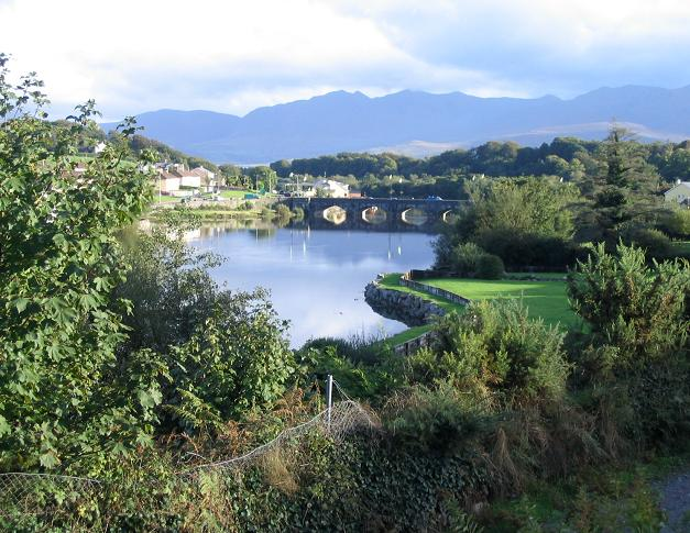 River Laune, Killorglin (Cill Orglan), Co. Kerry, near to Cill Orglan, Hillville, Reen and Ballymacprior, Kerry, Ireland. The mountains in the background are "Macgillycuddy's Reeks"